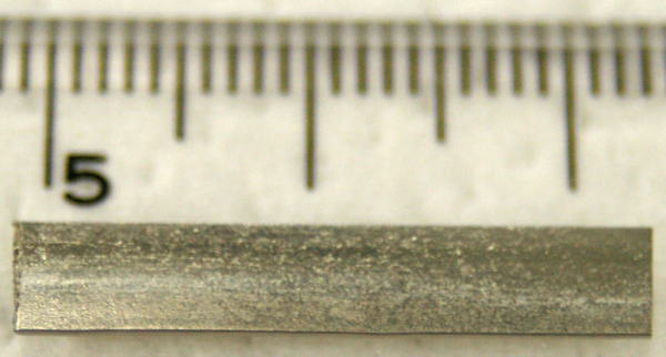 MgB2 tape produced by the PIT process